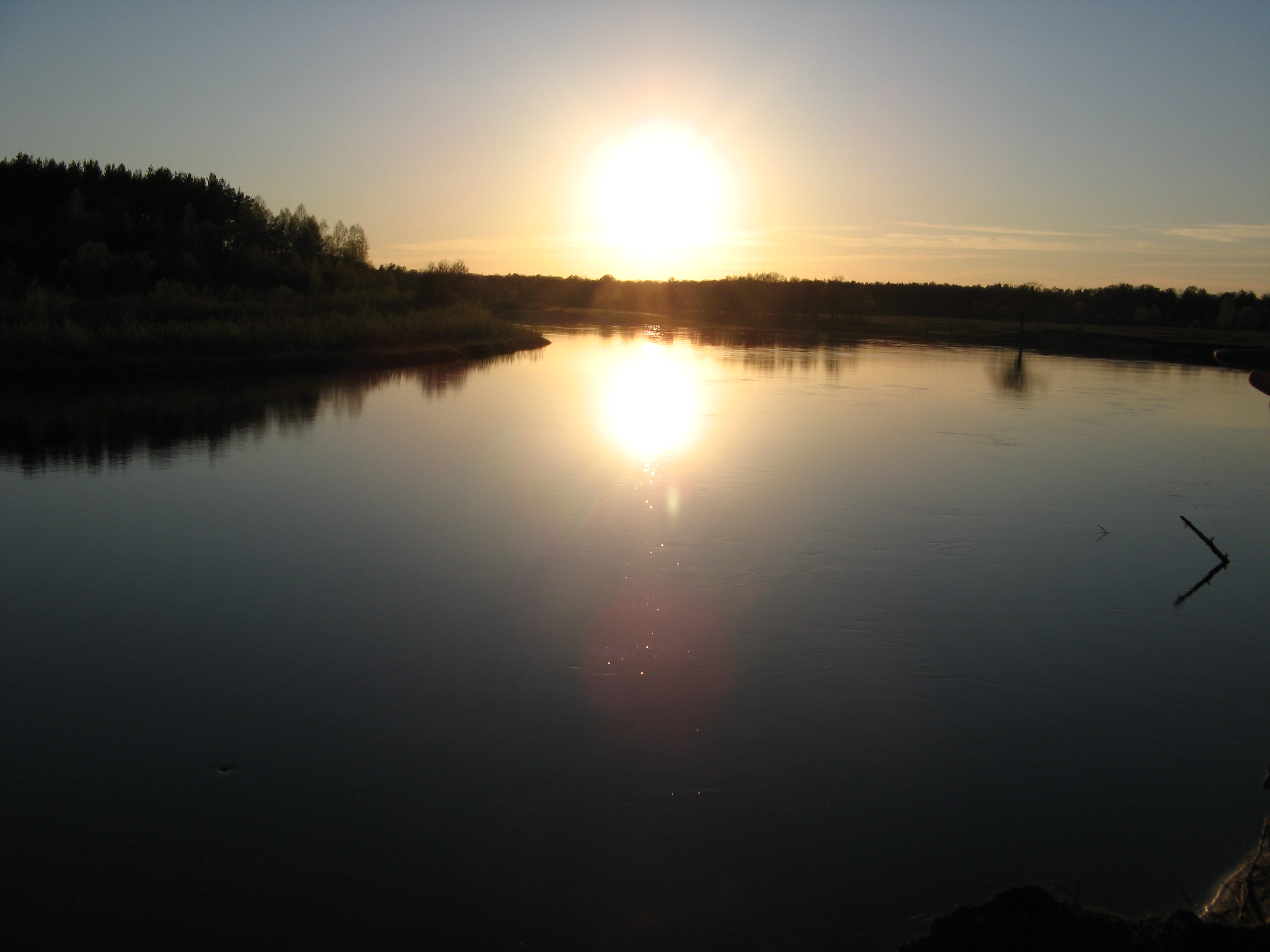 Nioman near the village Kryvicy